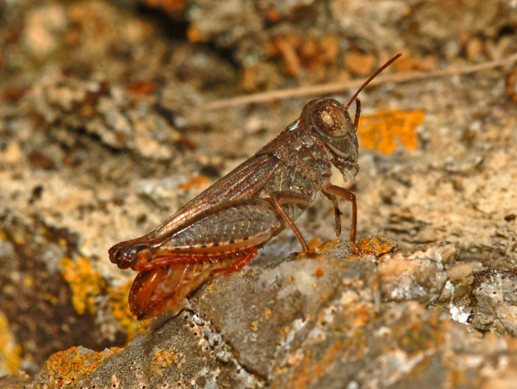 Calliptamus italicus - male